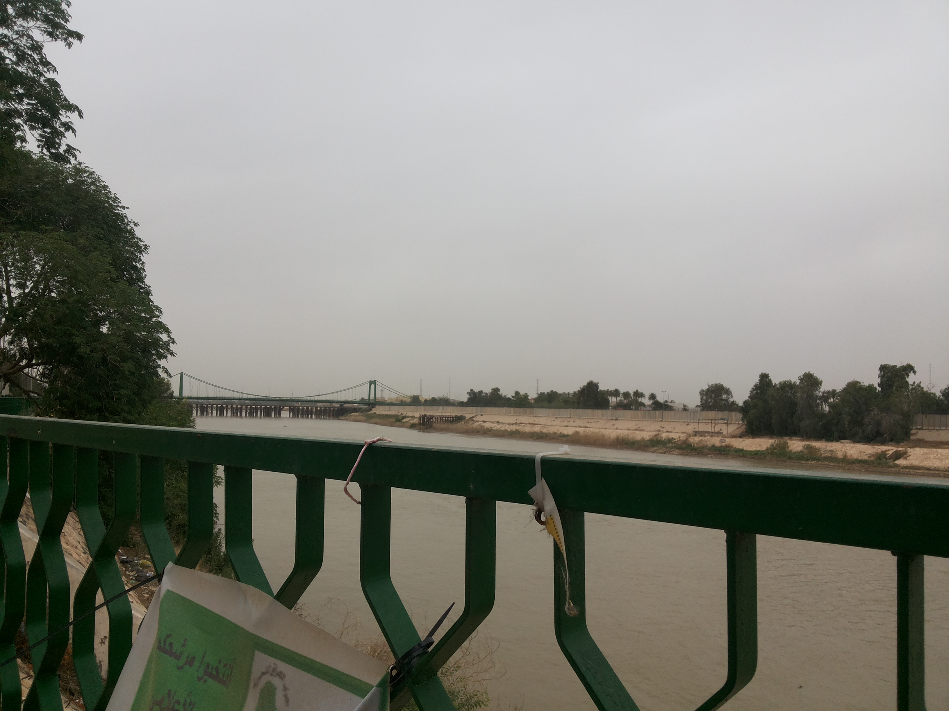 Bridge of 14 July in Baghdad